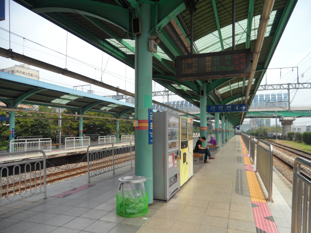 Platform of Gunpo Station